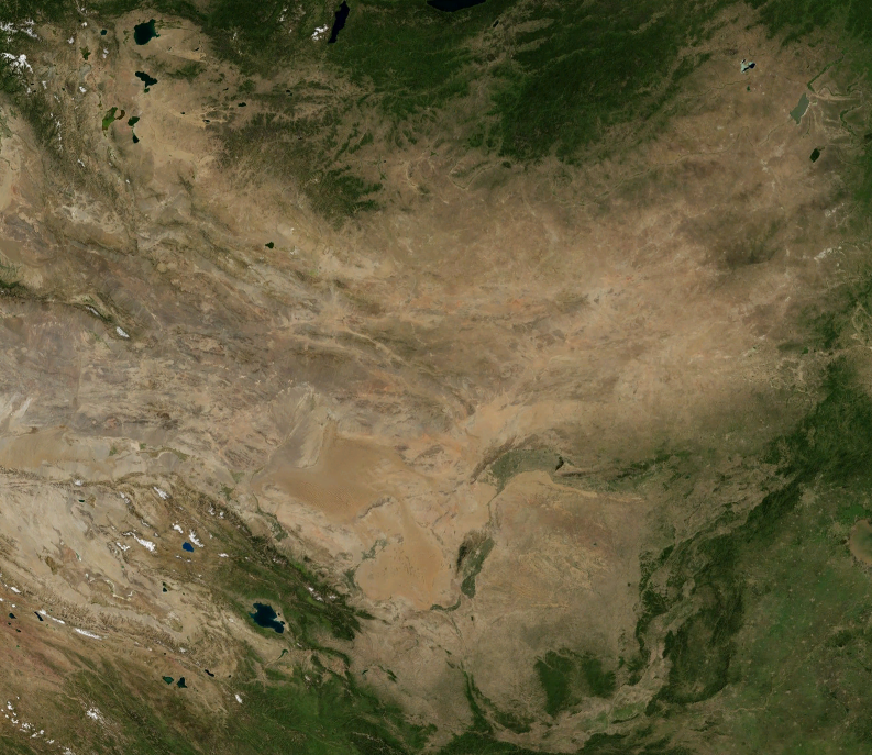 NASA World Wind 1.4 used